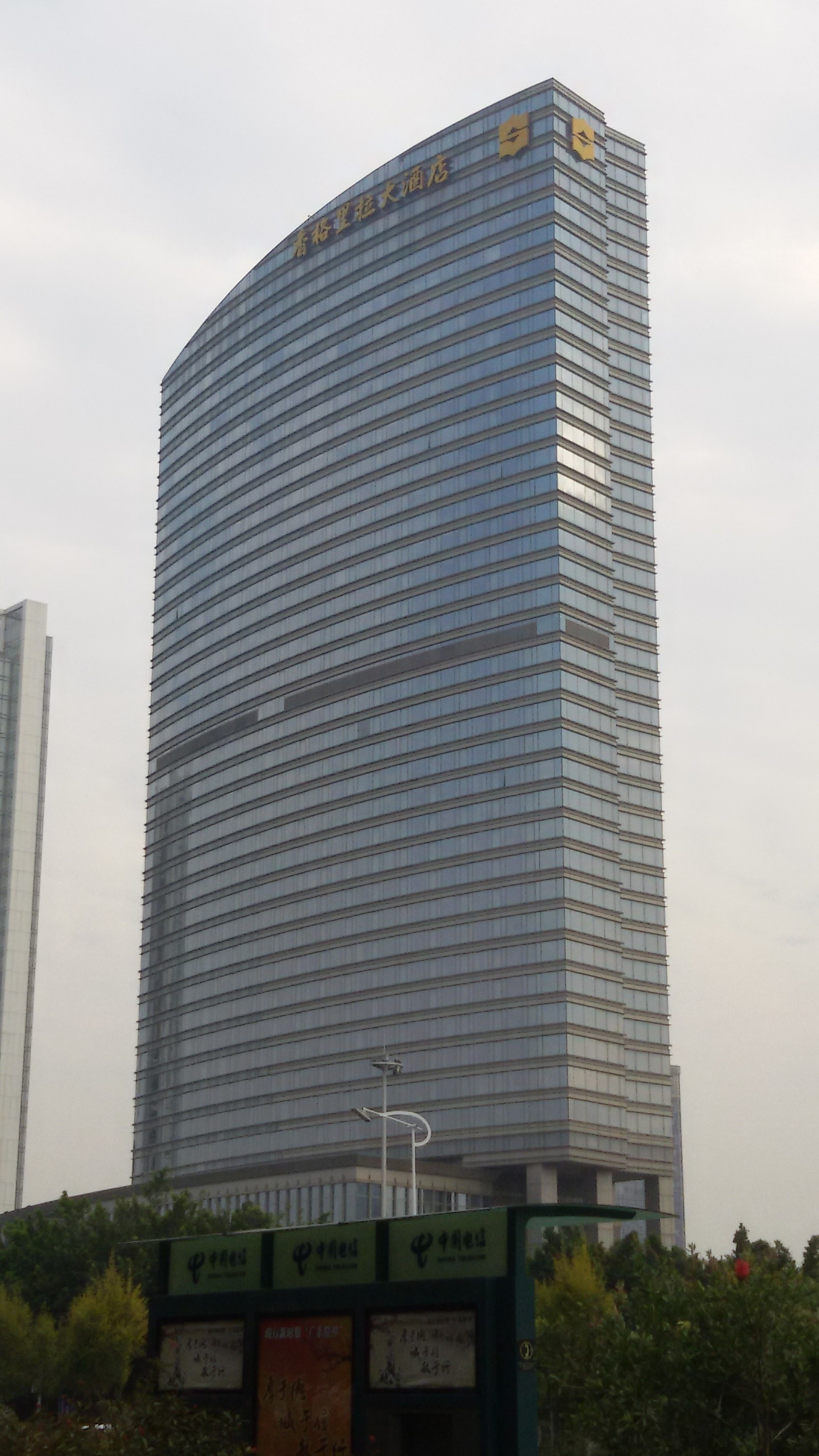 Guangzhou Shangri-La Hotel